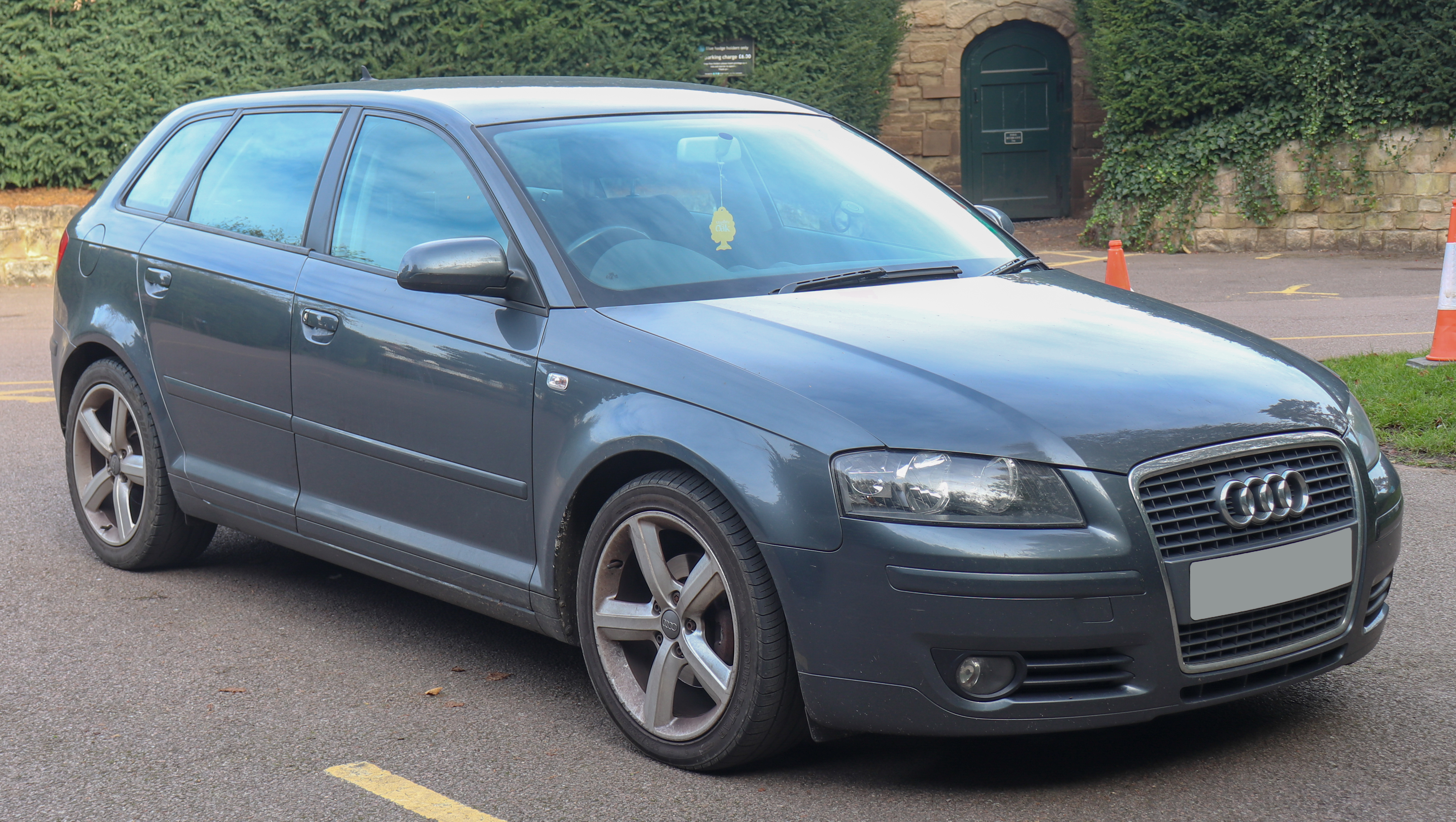 2008 Audi A3 Sport TDi 1.9 Front Taken in Warwick